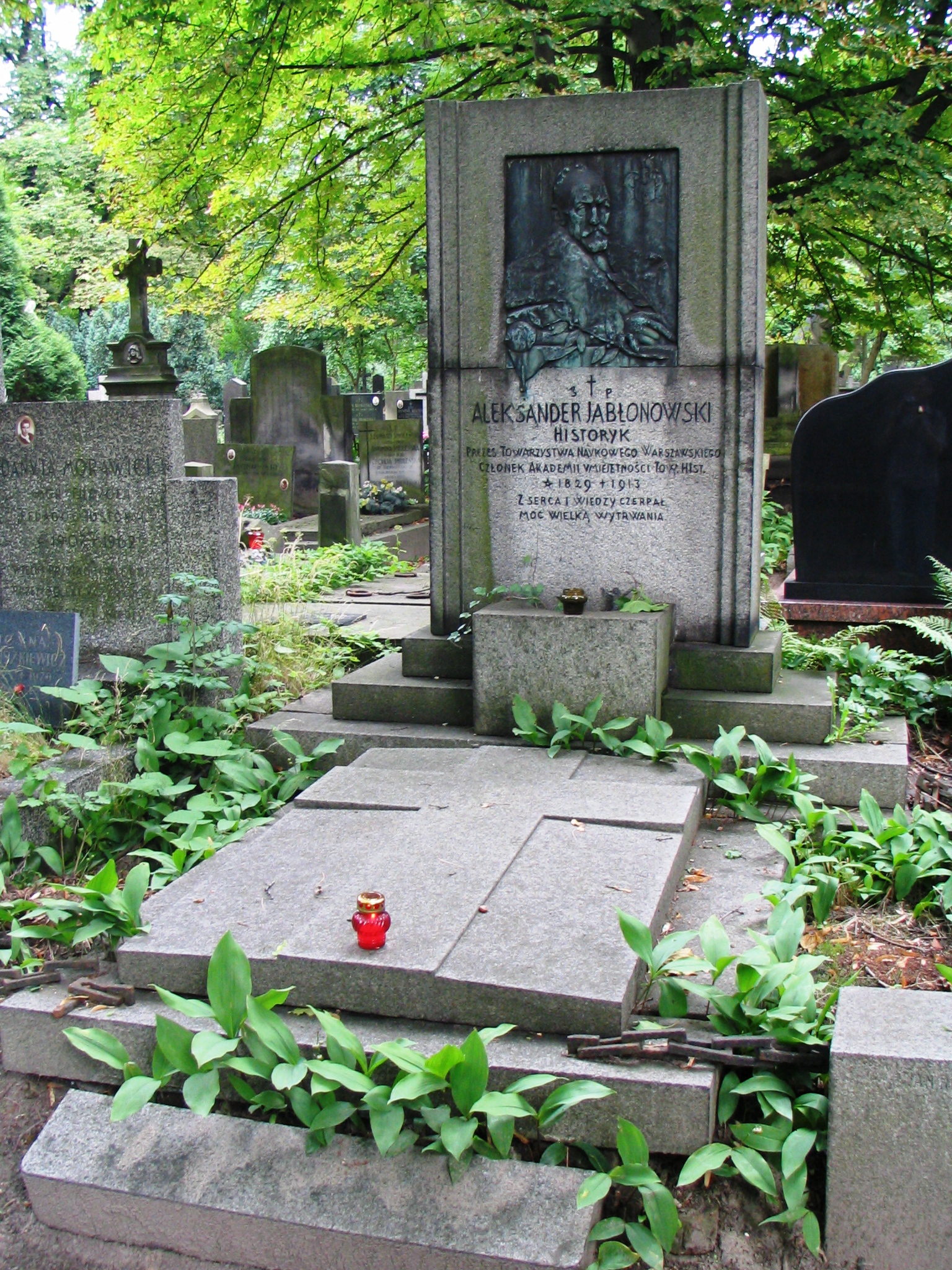 Grave of Aleksander Jabłonowski and Władysław Jabłonowski at Powązki Cemetery in Warsaw, Poland